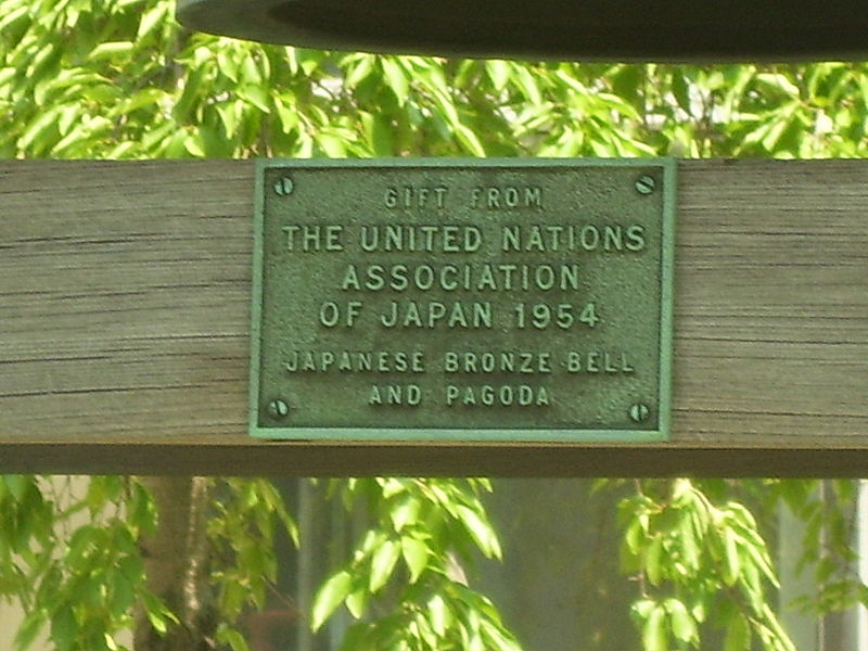 Dedication plaque for the United Nations Japanese Peace Bell, United Nations Headquarters, New York City. Photograph credit: Dragonbite.